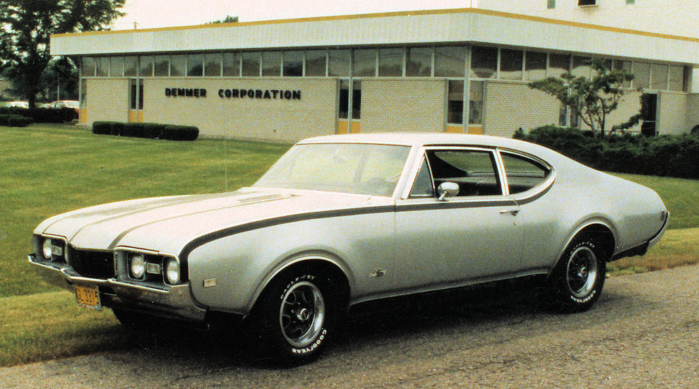 1968 Hurst/Oldsmobile club coupe (one of 51 built) photographed in front of Demmer Engineering in Lansing, Michigan. The cars were modified here after being built across town. This photo was taken in 1982.